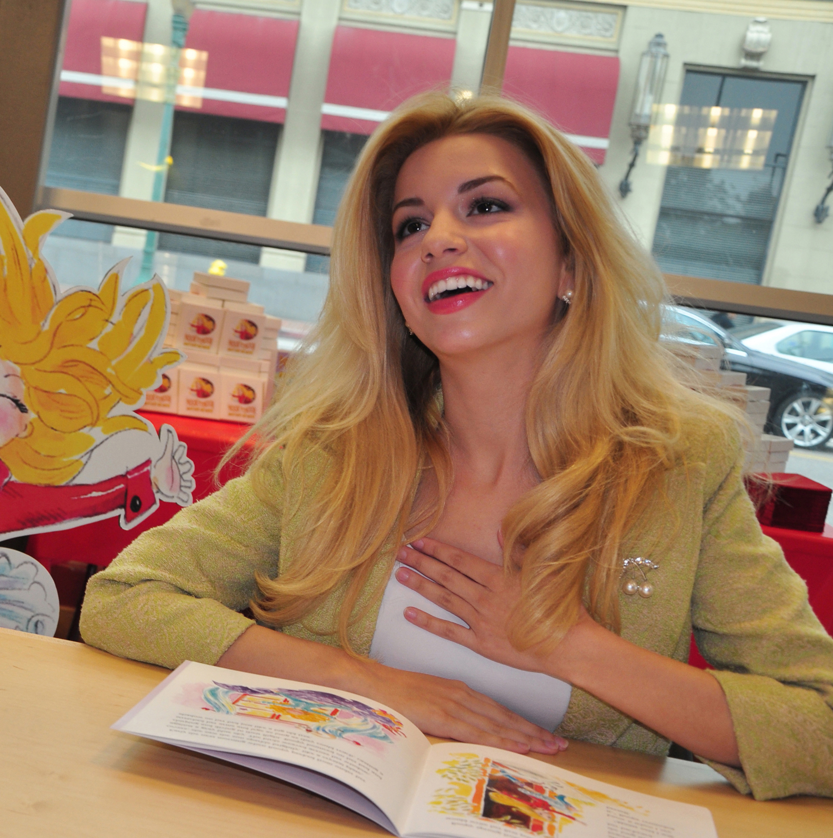 Masiela Lusha attending the book signing of her children's book, Boopity Boop Writes her First Poem